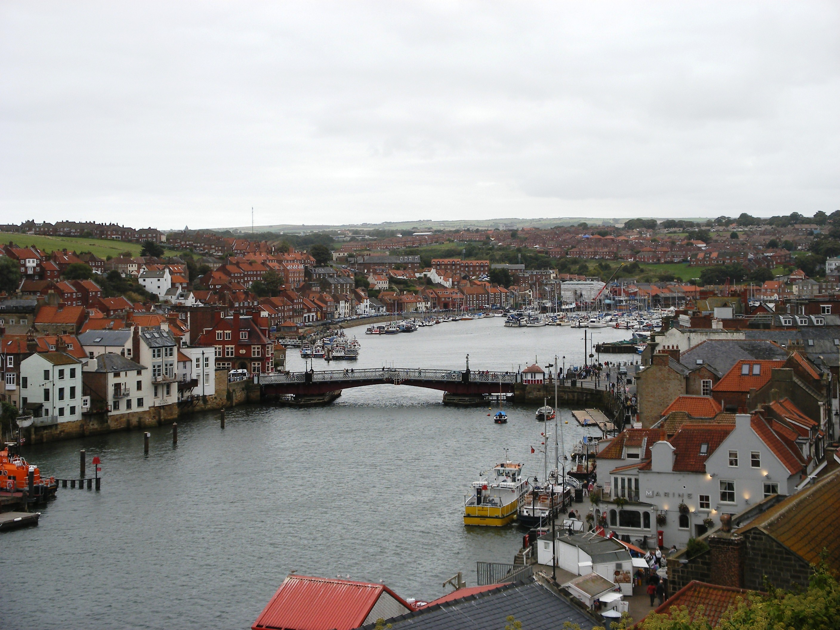 Whitby Bridge